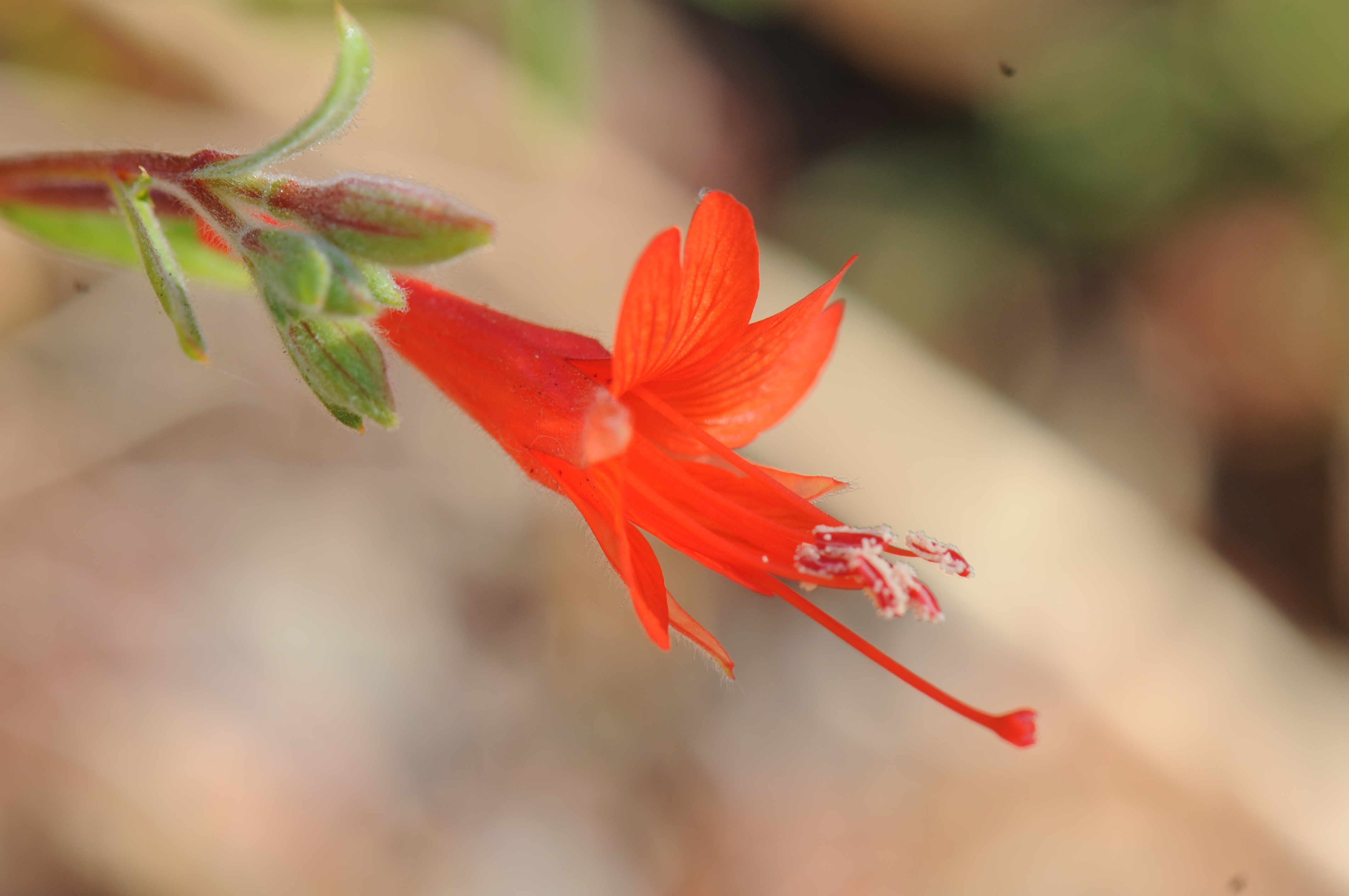 Closeup of Zauschneria flower (Epilobium canum) — at Regional Park Botanic Garden in Berkeley, California.